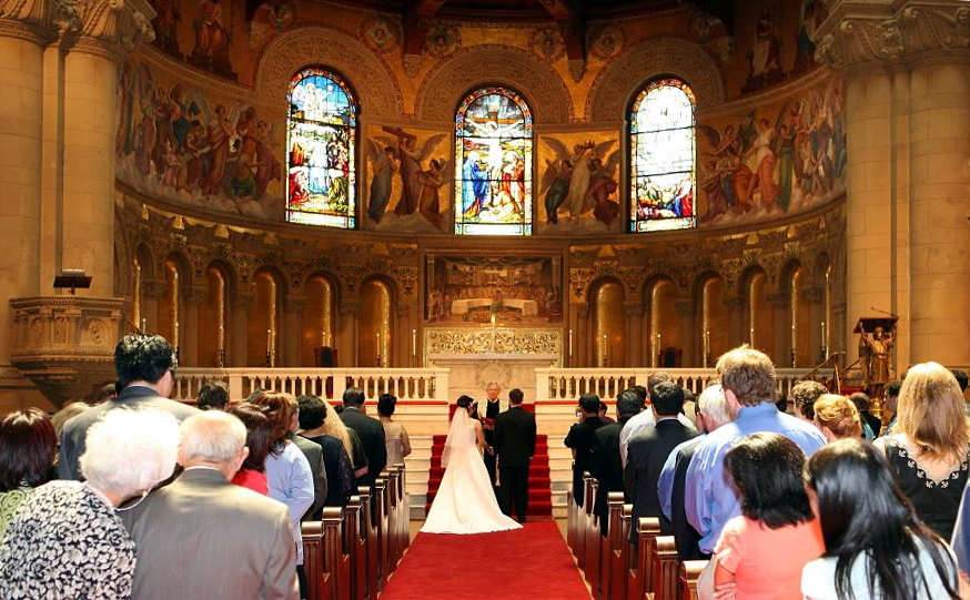 A wedding at Stanford Memorial Church; gives a good view of the center aisle and front of the church. The church and its contents were reconstructed in 1906 after an earthquake; hence, the architecture and works of art are in the public domain (PD-US).[1][2]